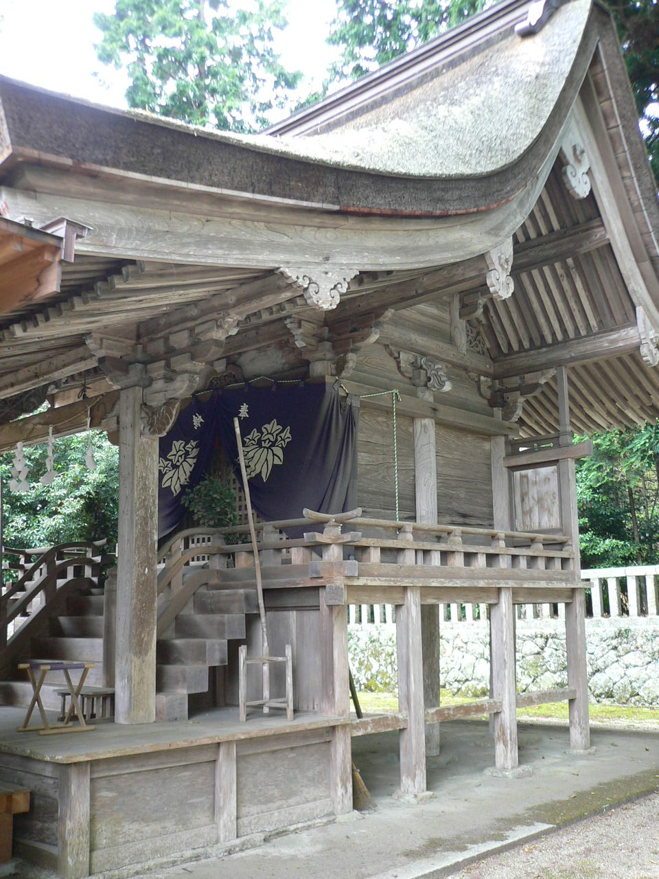 TakamefuJinjya (Shrine) at Hyōgo Prefecture in Japan.